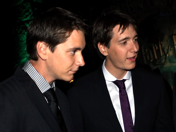 James and Oliver Phelps at the Harry Potter and the half-blood prince preview in Oslo, Norway.